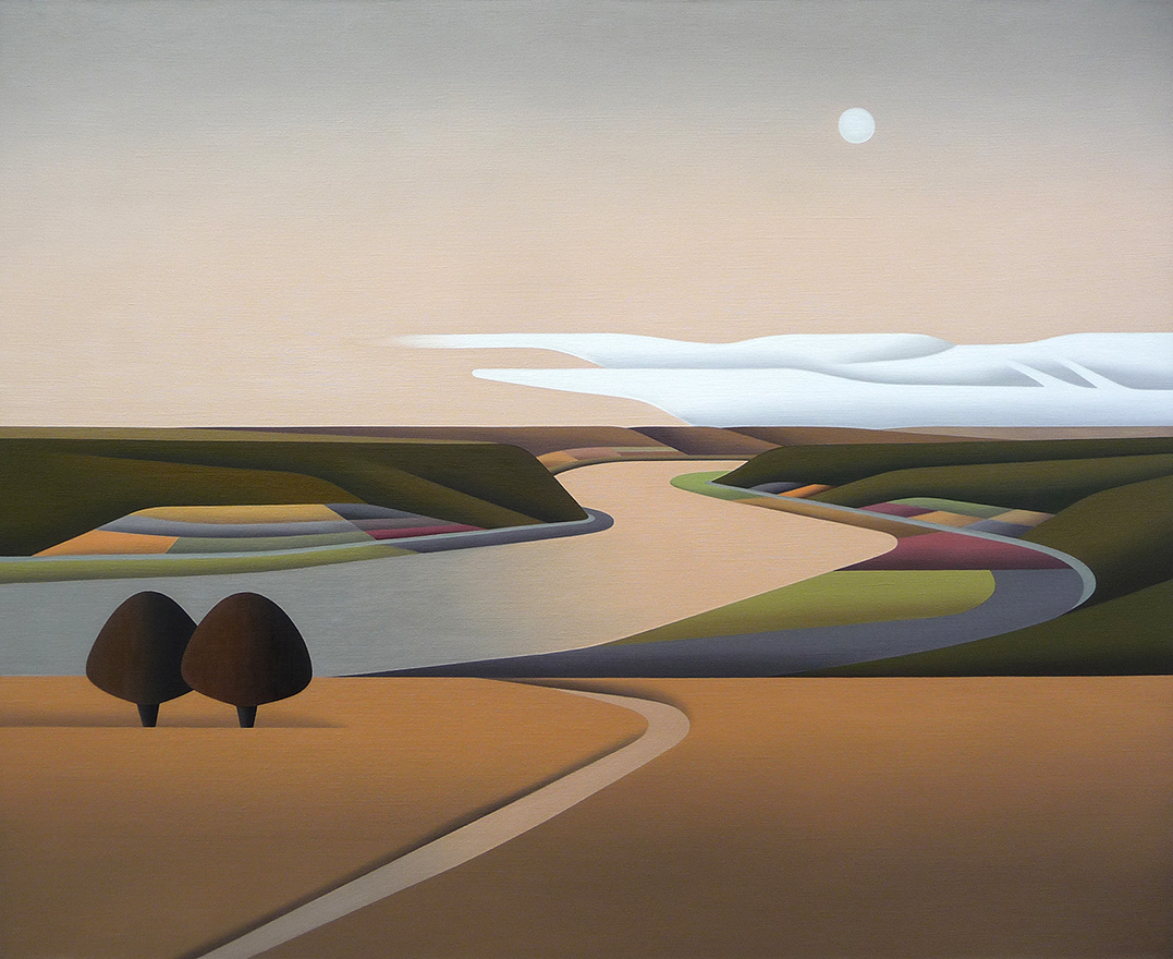 Jan Schüler, Autumn evening on the Rhine, 2019, oil on canvas, 90 x 110 cm